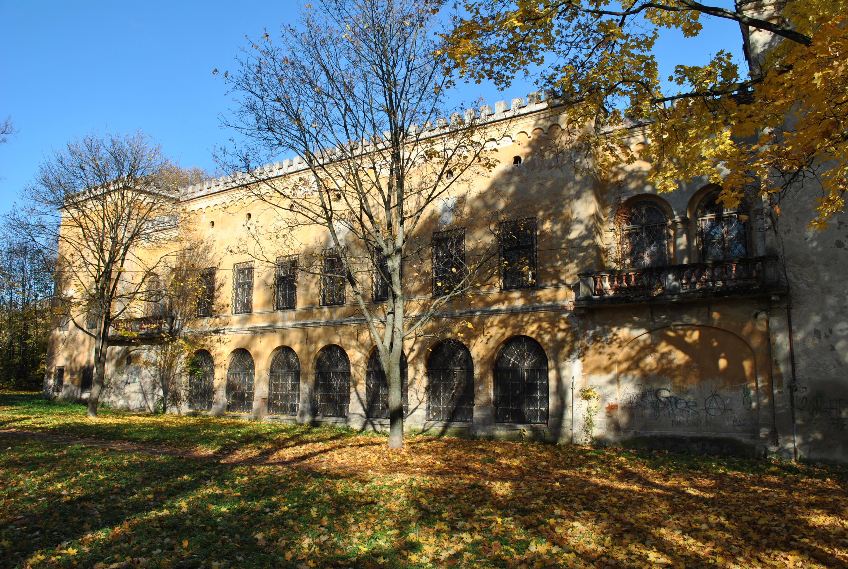 Banská Bystrica - town-district of Radvaň - manor-house of the Radvánszky family